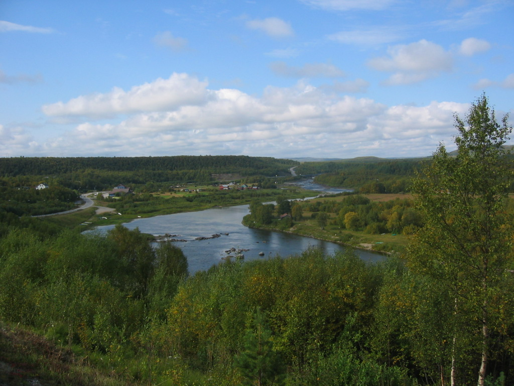 Panorama of River Neiden in Finnmark, Norway